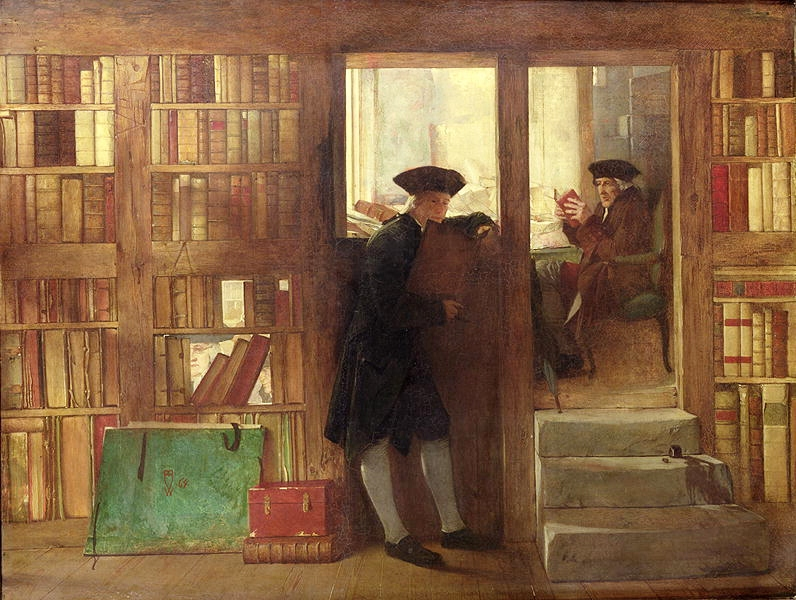 The Bibliophilist's Haunt or Creech's Bookshop